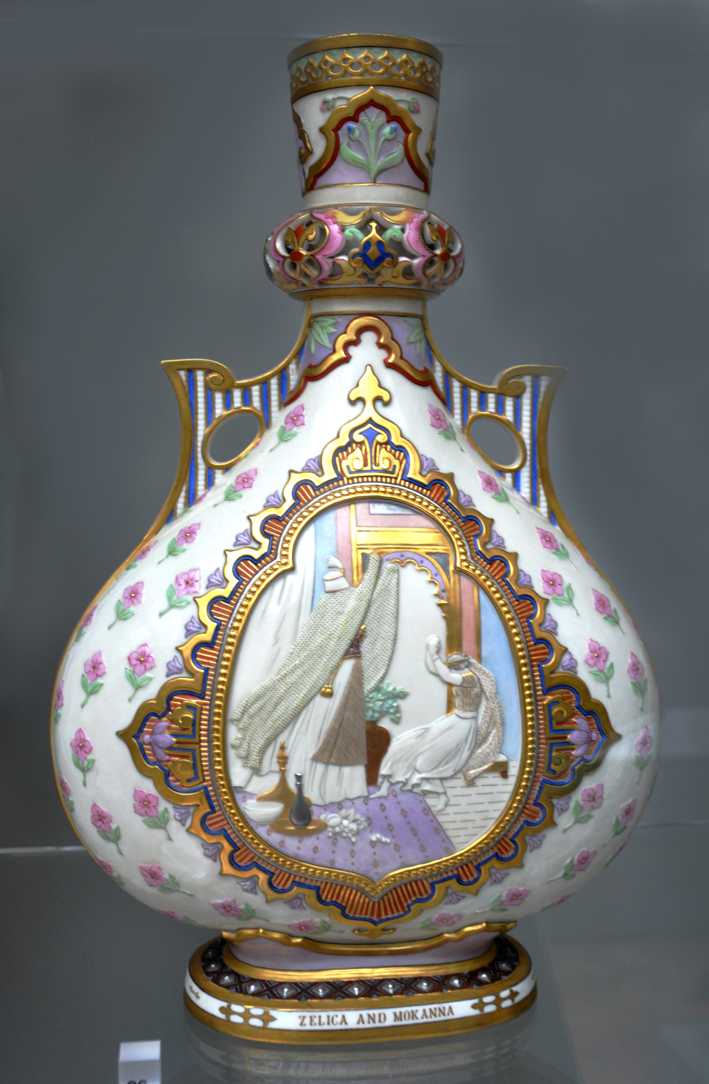 Vase with scenes from Thomas Moore's poetry; Royal Worcester, Worcester 1874; porcelain with painted and gilt decoration; depicting the scene of Feramoz introduced as a poet on one side and Zelica and Mokanna on the other (shown here), from illustrations by Hablot Knight Browne and G. H. Thomas to The Veiled Prophet of Khorassan, one of four tales in the Routledge 1868 edition of Thomas Moore's poem Lalla-Rookh Victoria and Albert Museum, London, museum no. C.63-1972 (Link)